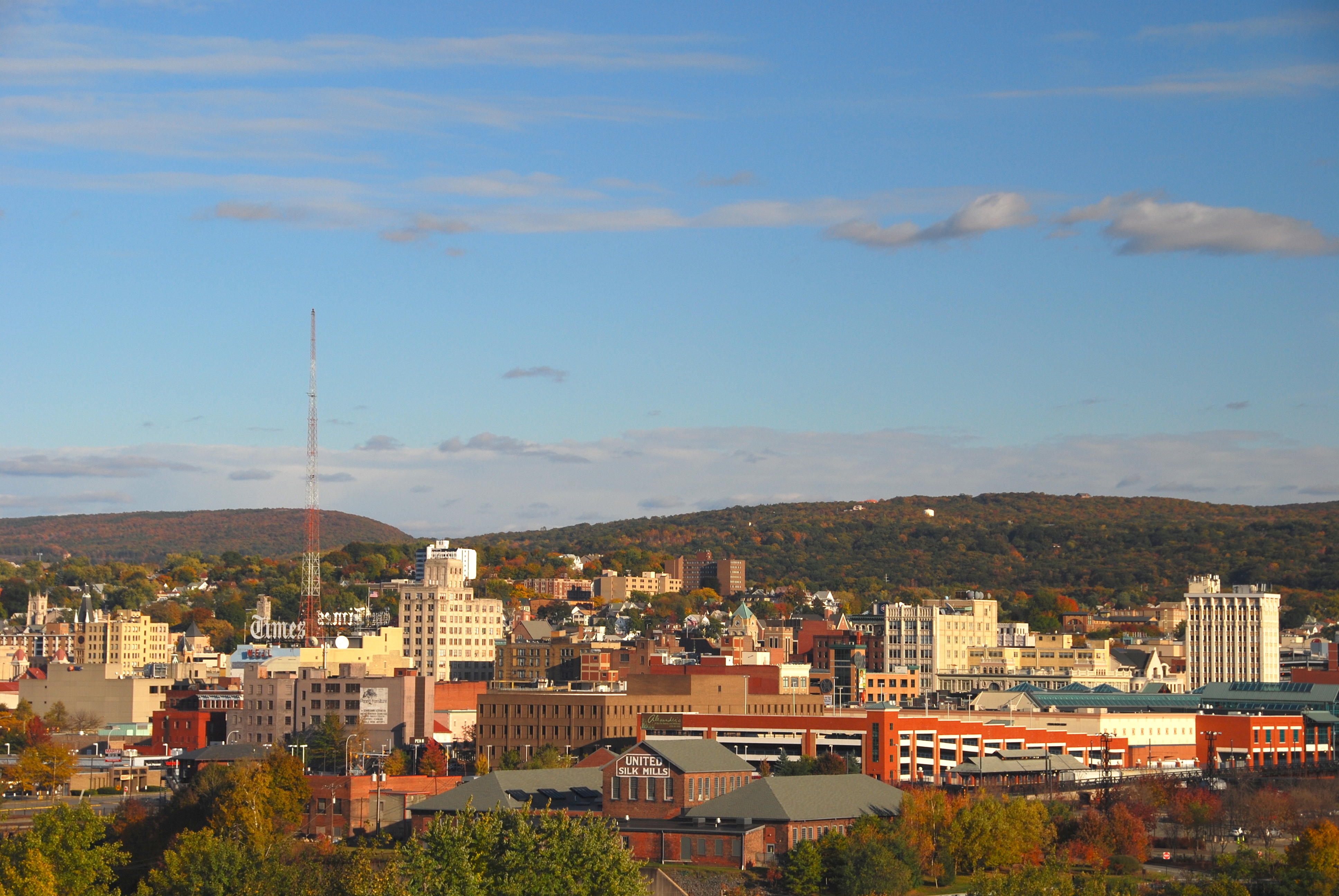 Downtown Scranton, PA, on an autumn afternoon